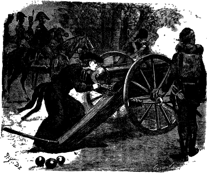 Picture from book Omwenteling van 1830